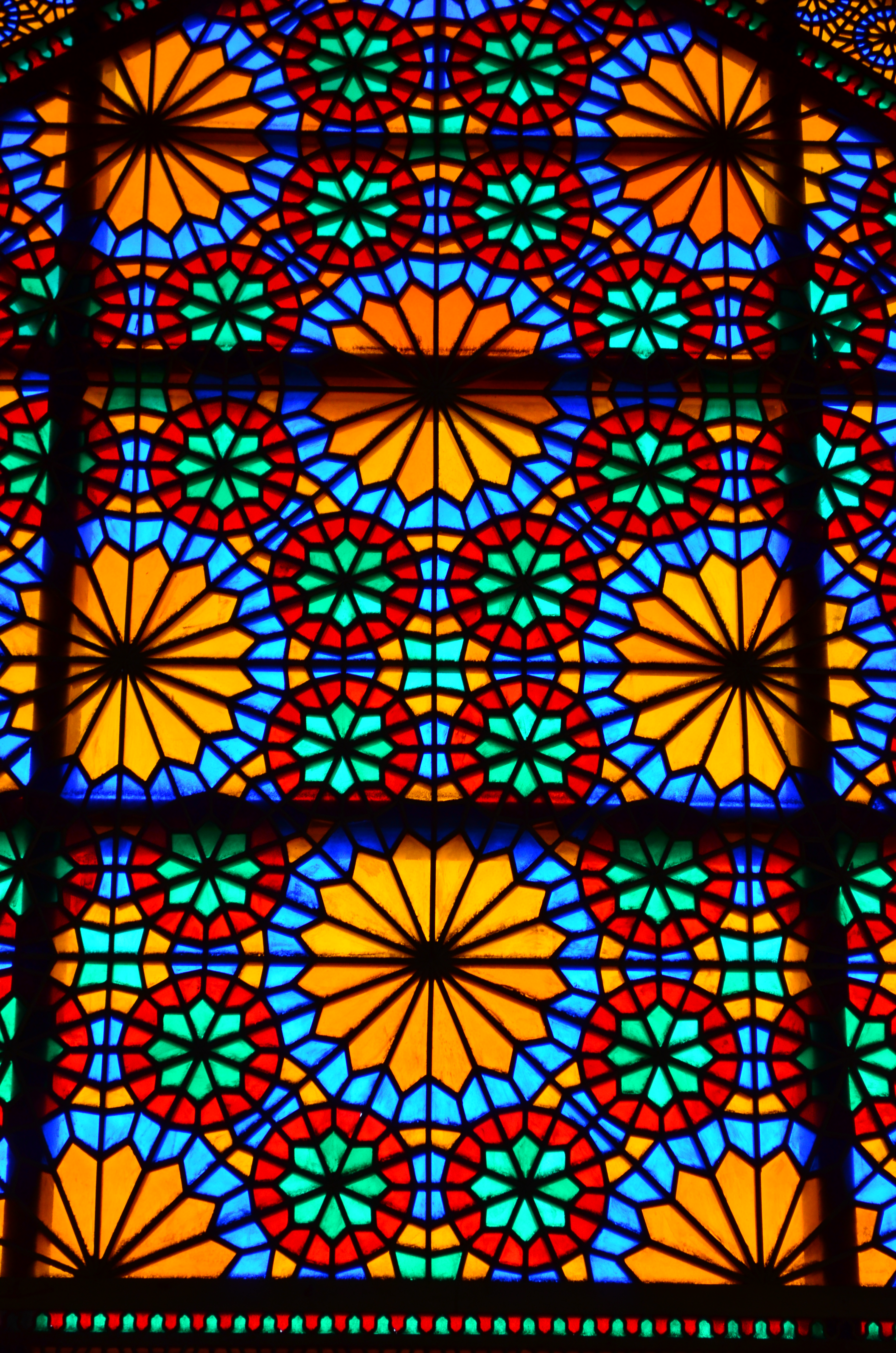 Arg of Karim Khan